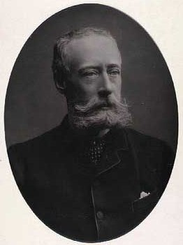 Christian Frederik Danneskiold-Samsøe (1838-1914), Danish count, politician, MP and estate owner